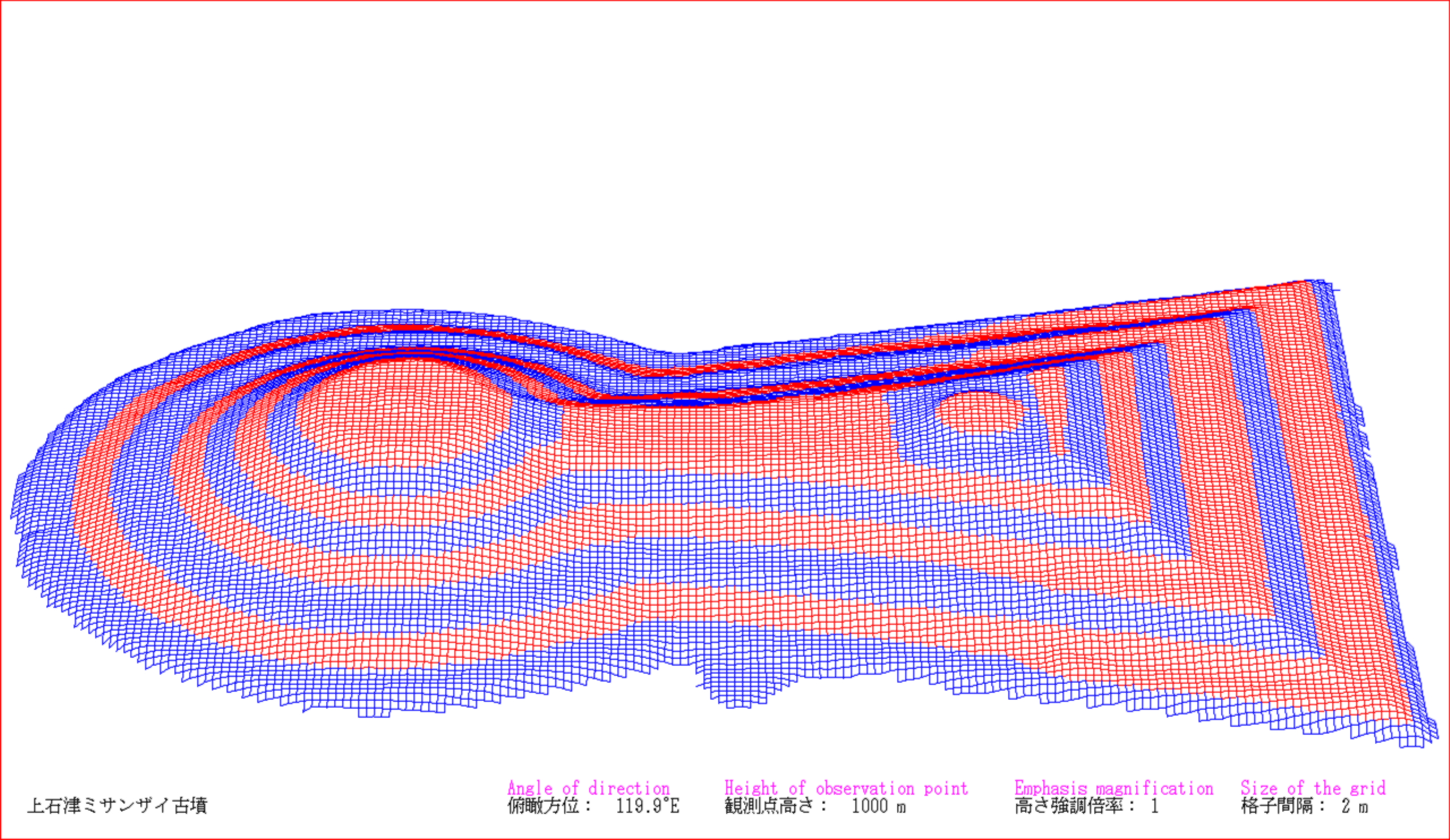 I who am a contributor drew the picture by a software which developed by myself. The survey map which I referred to depends on "「履中天皇陵古墳」『百舌鳥古墳群測量図集成』堺市 (2015年）". This is a drawing of present situation (not a drawing of a restored mound). The drawing depends on combination of wire frame and height eight phases classification. Perspective projection.